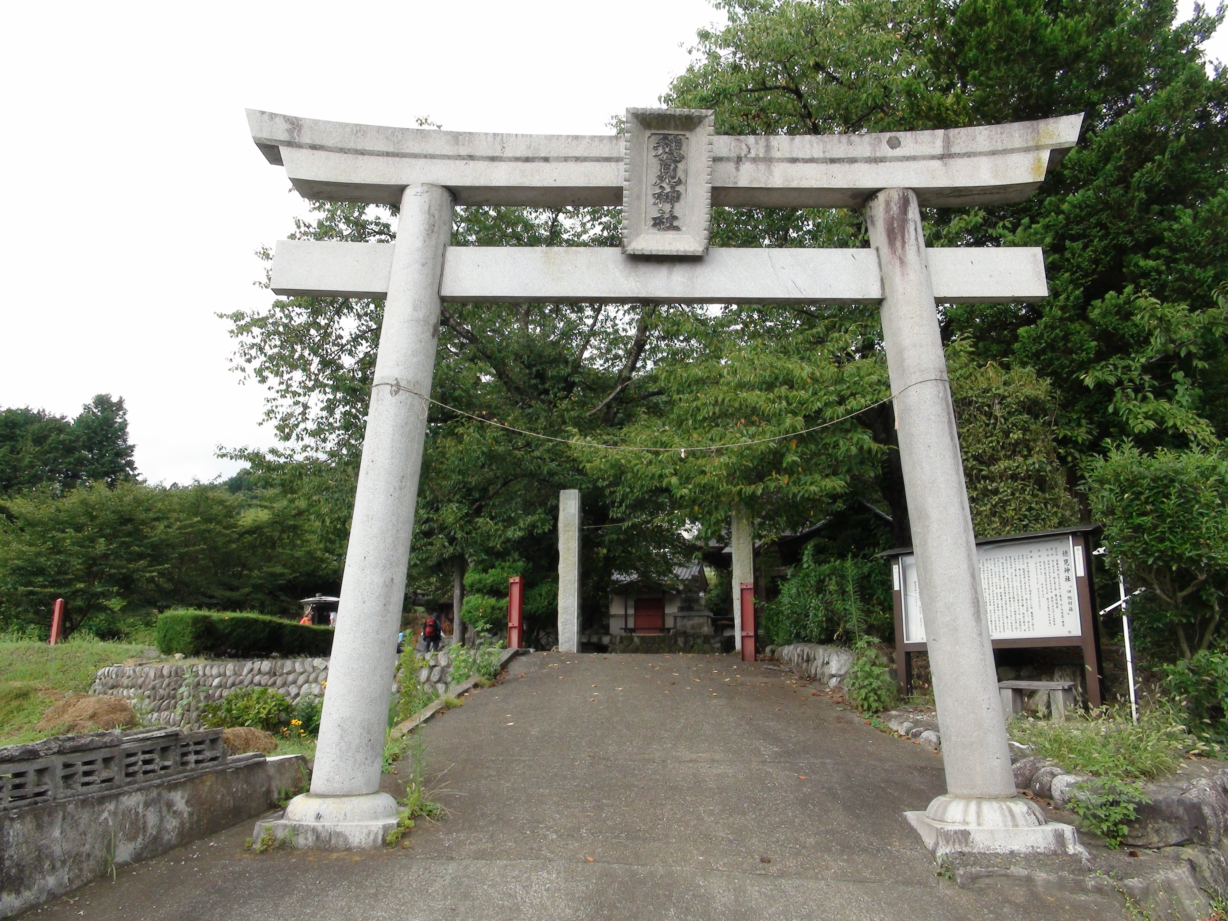 Homi Shrine Torii